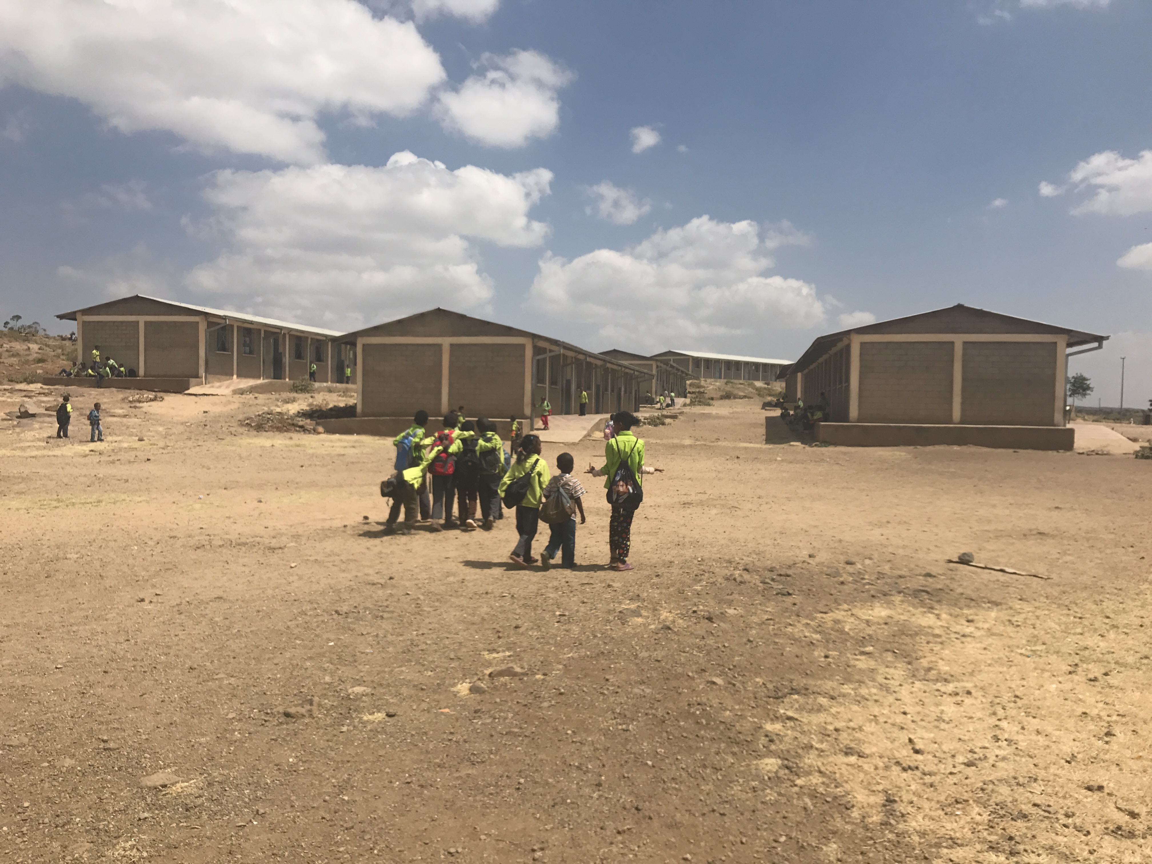 This is an image of "African people at work" from Eritrea